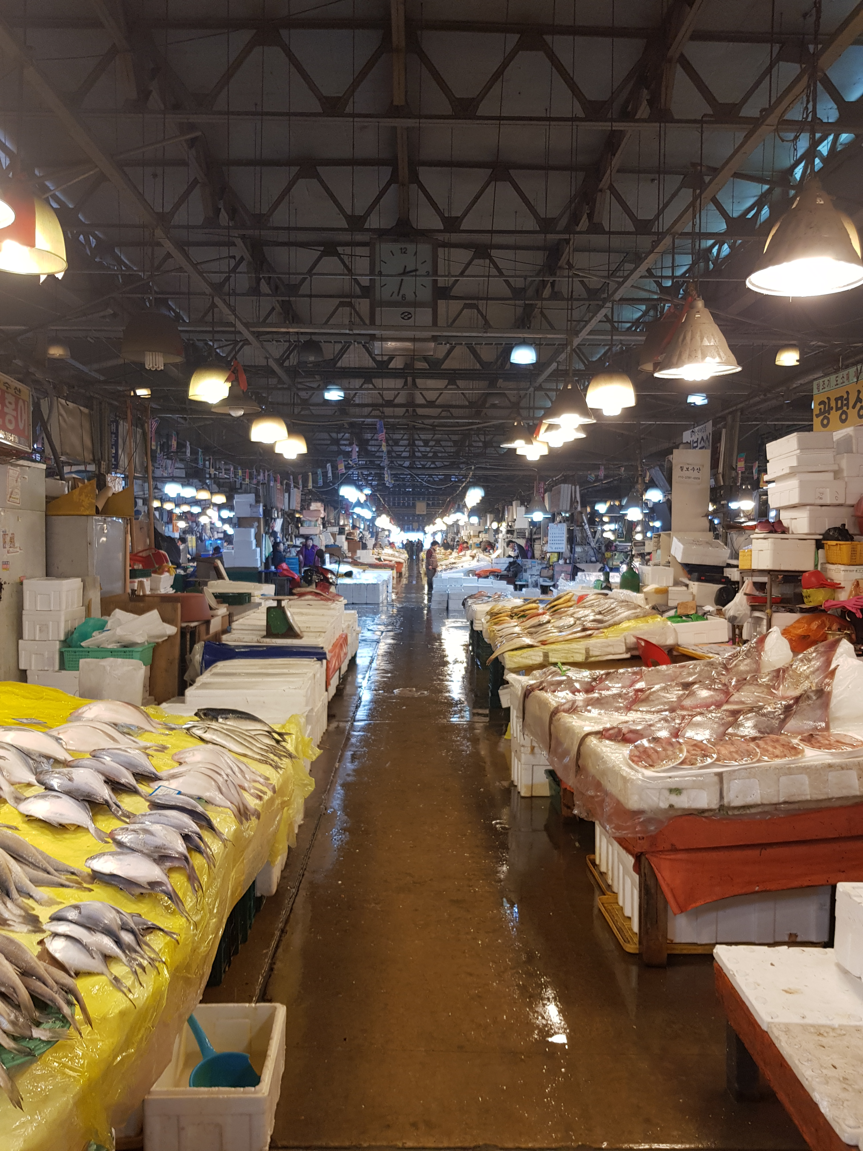 View of the Noryangjin Fish Market